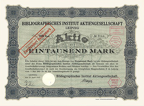 Aktie der Bibliographisches Institut AG Leipzig